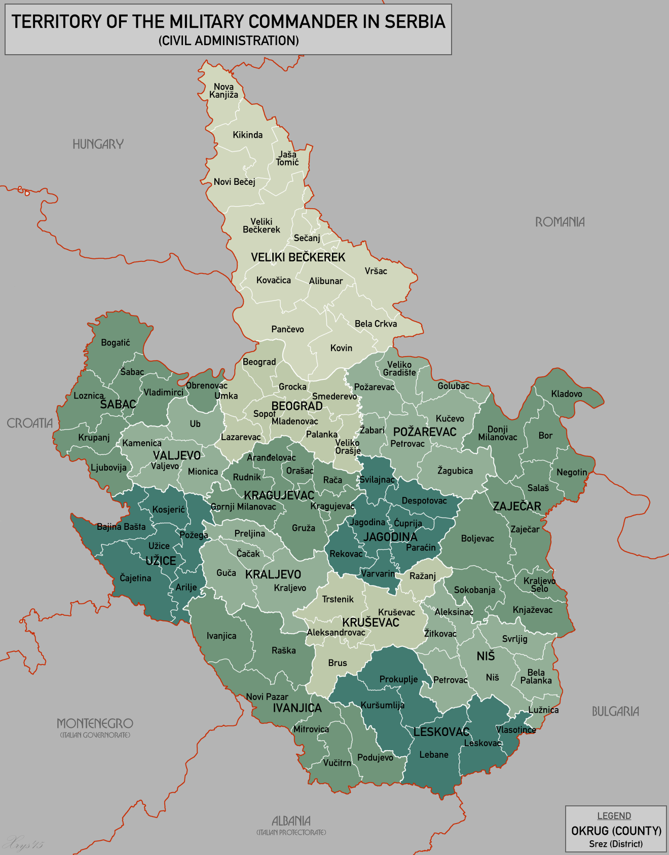 Map of the civil administrative areas in the Territory of the Military Commander in Serbia 1941-44. Source data: 200k Volkstumskarte Jugoslawien, Wilfried Krallert (1941). MOD M.D.R. Misc/8380 German Occupied Serbia (1944)